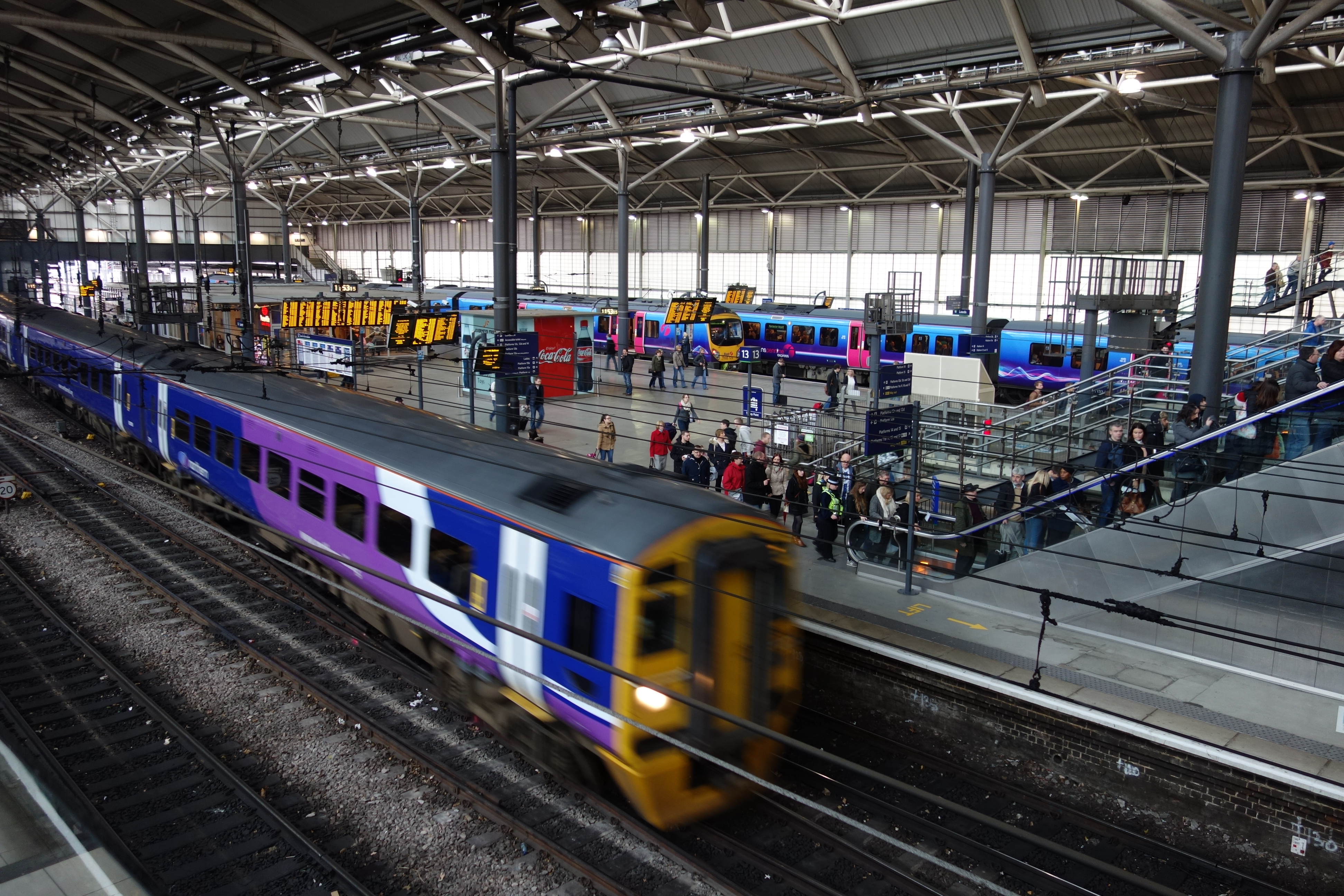 Leeds City Station.